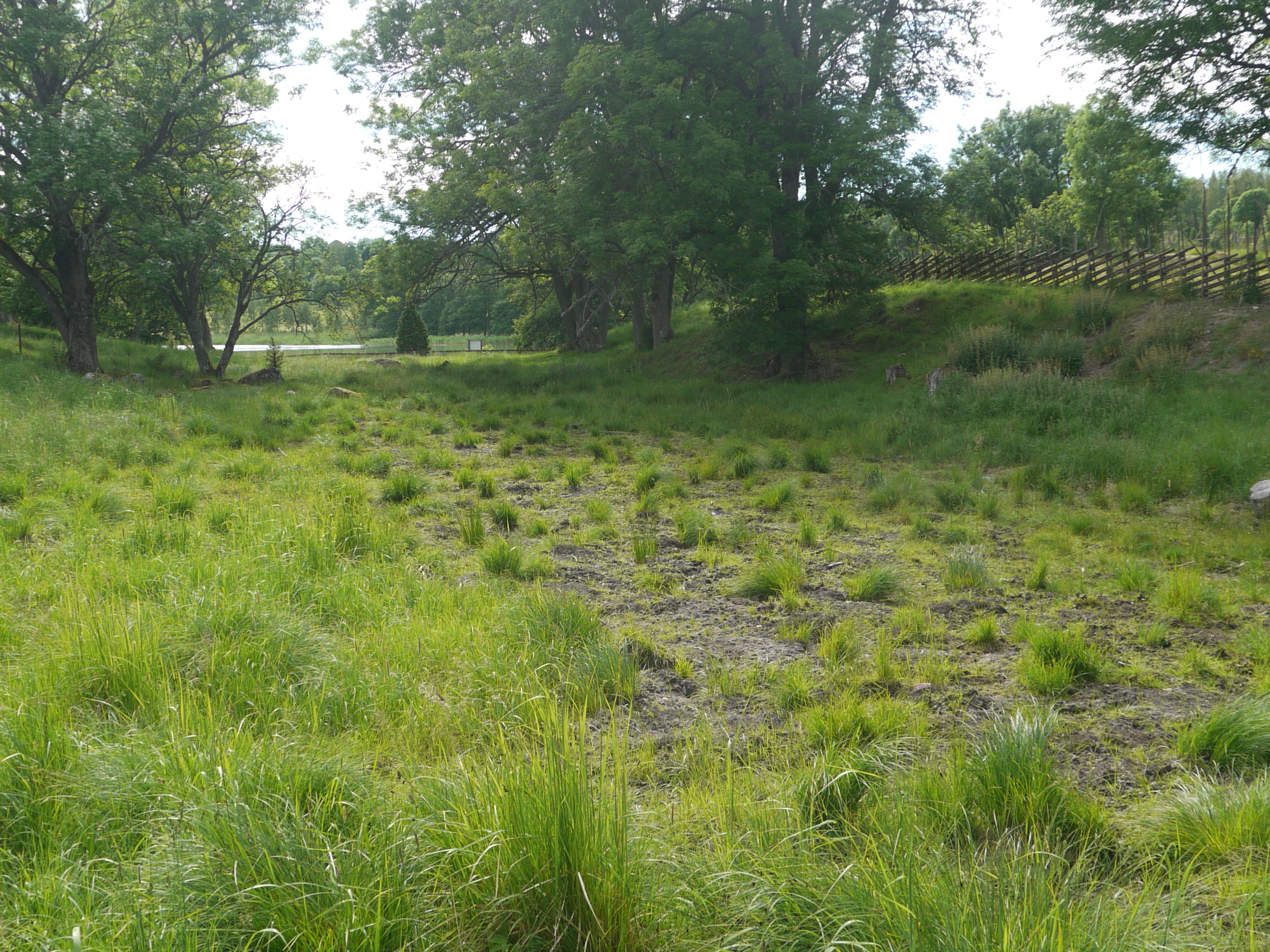 Canal around Kastelholm, Åland, fallen dry because of the postglacial land lift.